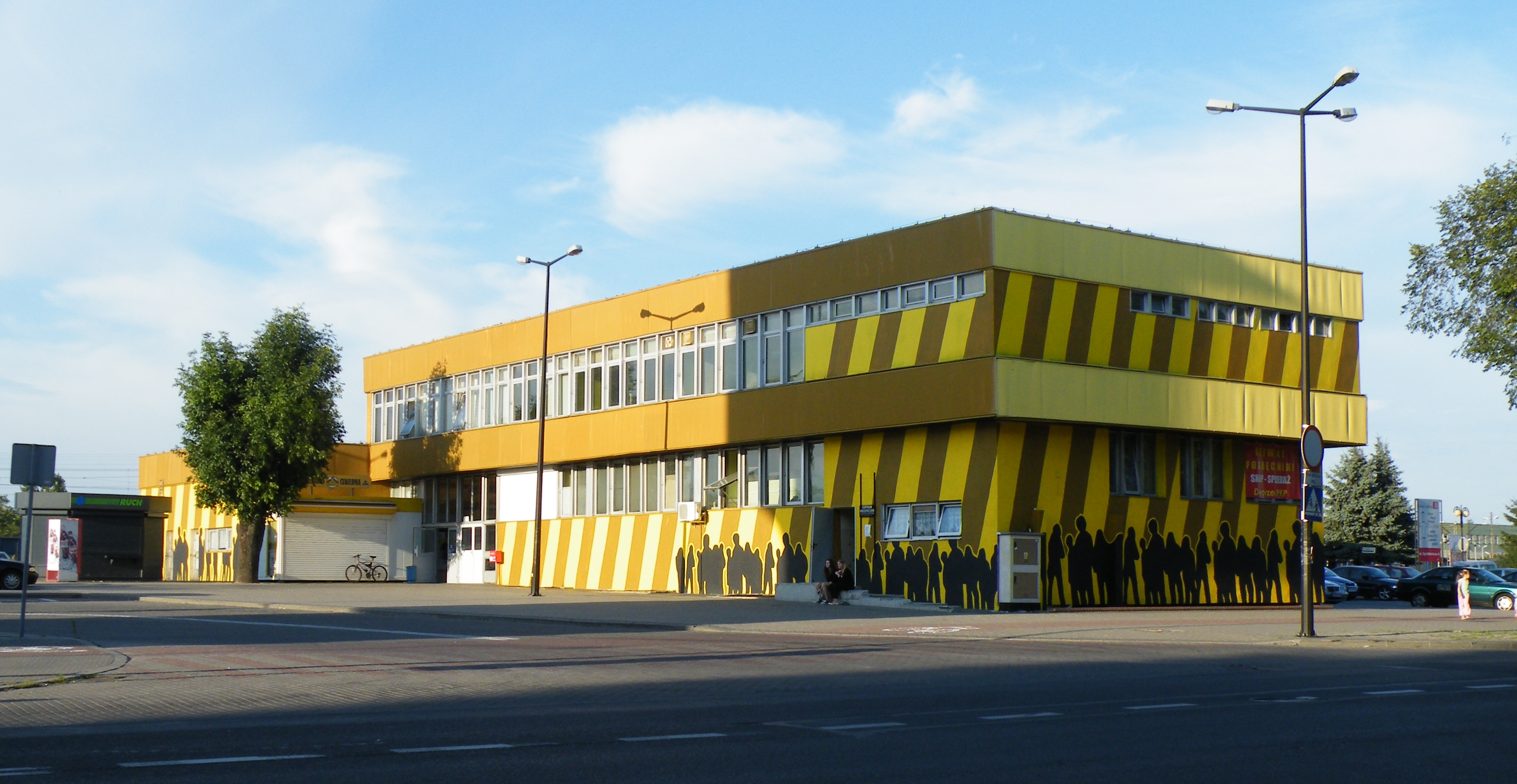 Konin Railway station in July 2013